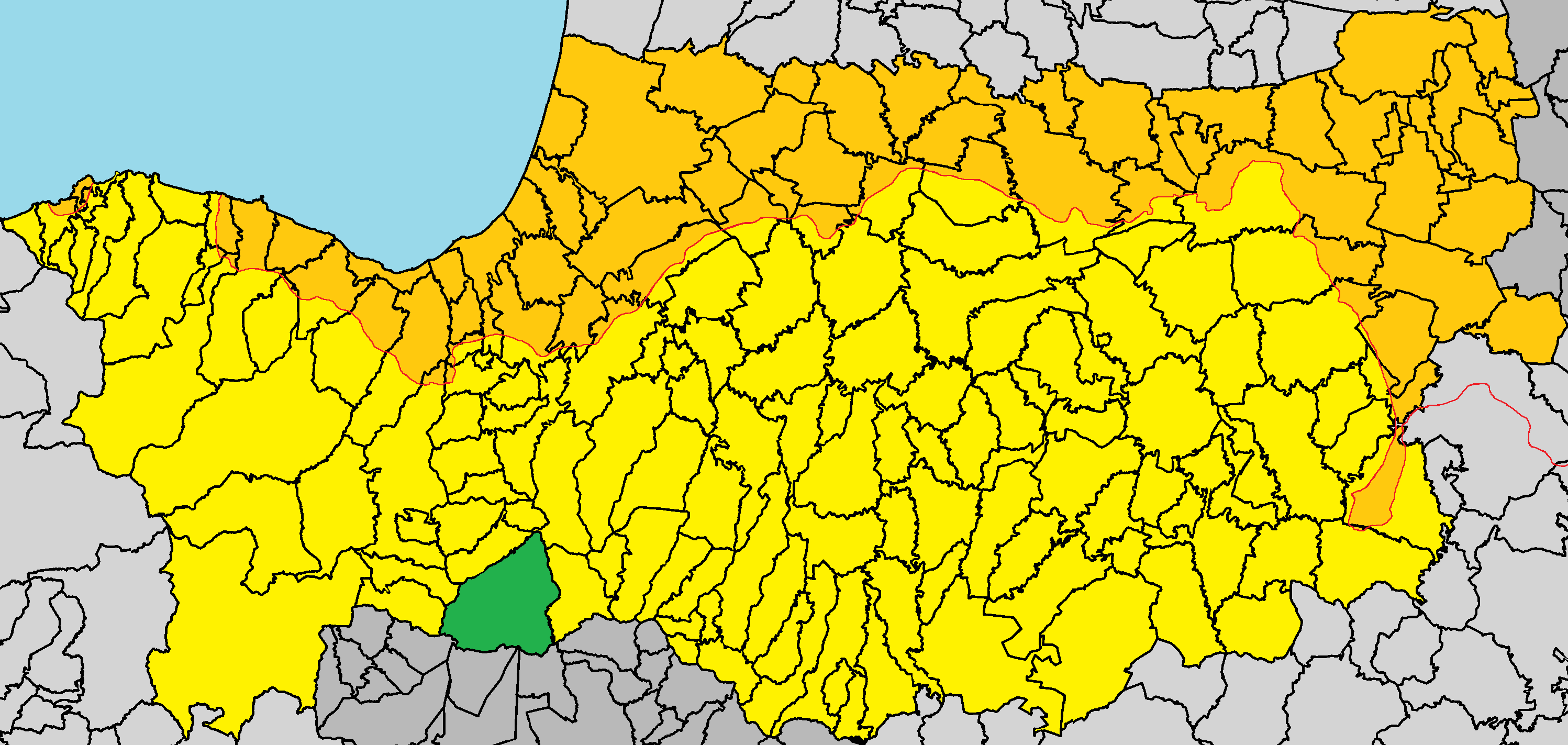 Kakopetria in Nicosia District.